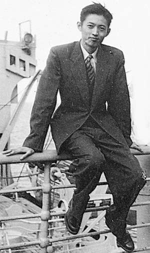 Zou Chenglu (Chen-Lu Tsou) aboard a ship from China to England